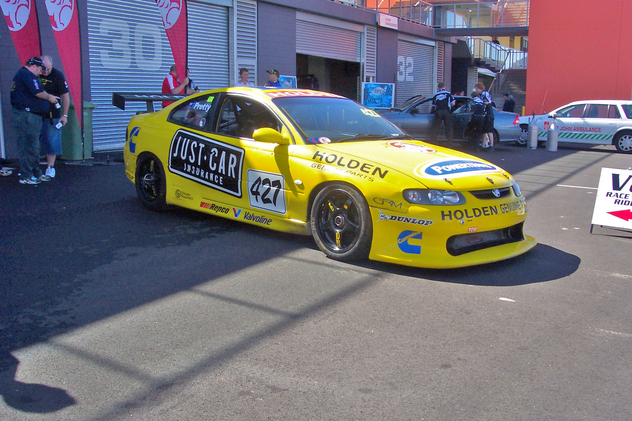 Holden Monaro 427C coupe. Built by Garry Rogers Motorsport to compete in the Bathurst 24 hour endurance races in 2002 and 2003. Both events were won by Monaro 427s. Car 427 won the 2002 race and finished second to its sister car (Car 05) in the 2003 race. Taken at the inaugural Bathurst International Motor Fest 2006, held at Mount Panorama Bathurst.